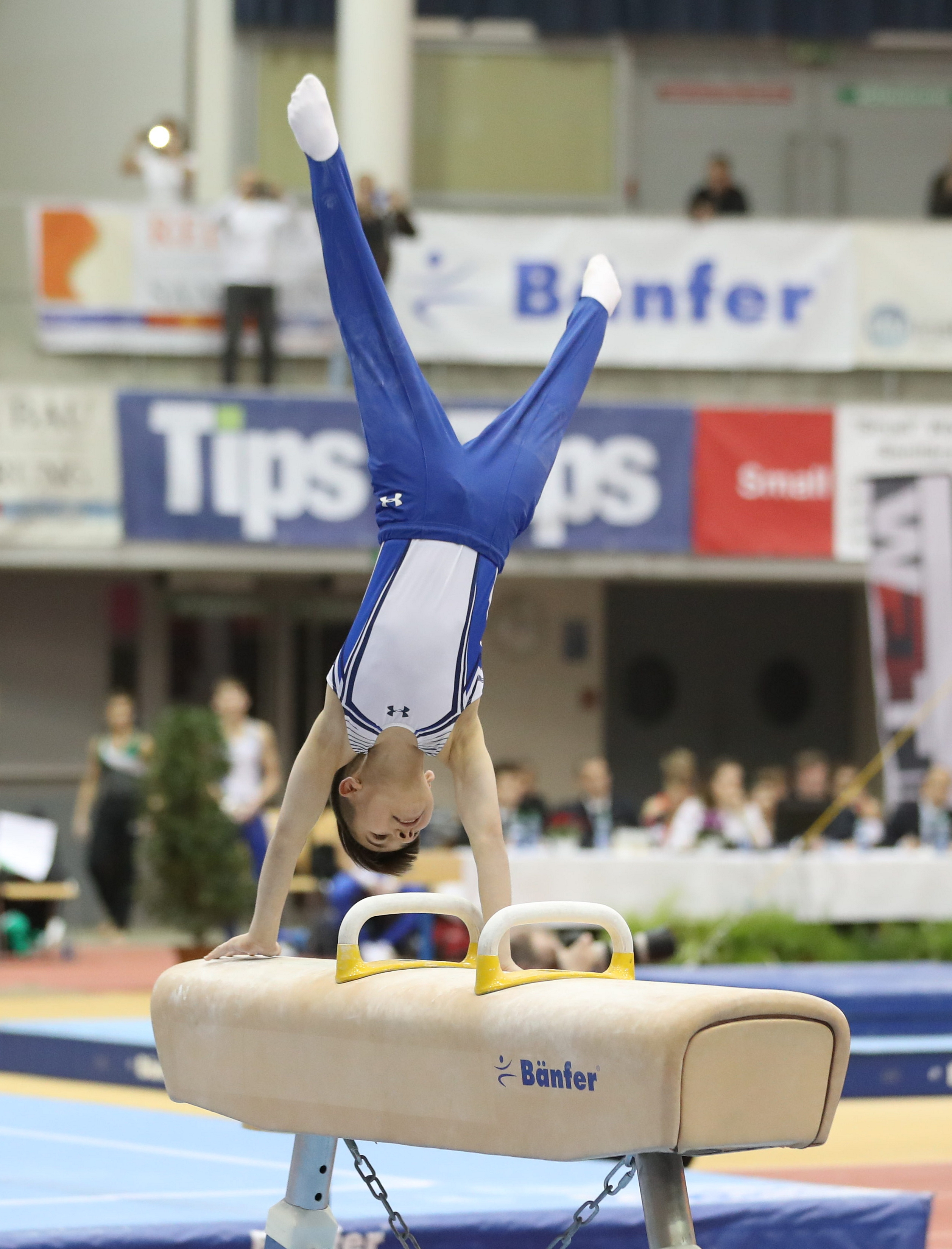 Laval Excellence, Canada, on pommel horse during the competition at the 15th Austrian TGW Future Cup Linz 2018. Depicted: Thomas Tittley.